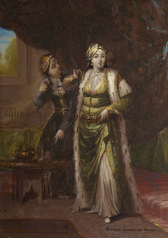 Sultane Asseki ou Reine, standing dressed in gold with a fur-lined cloak and an attendant to one side.